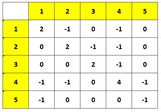 Ma tran bien doi G